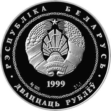 History and Culture of Belarus. Commemorative coins "Minsk (Minsk)